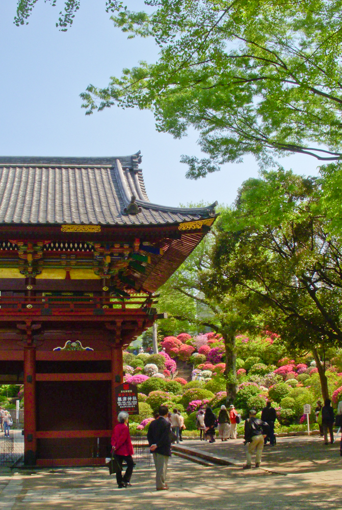 Gate at Nezu Shrine